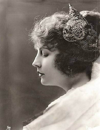 Dorothy Dalton